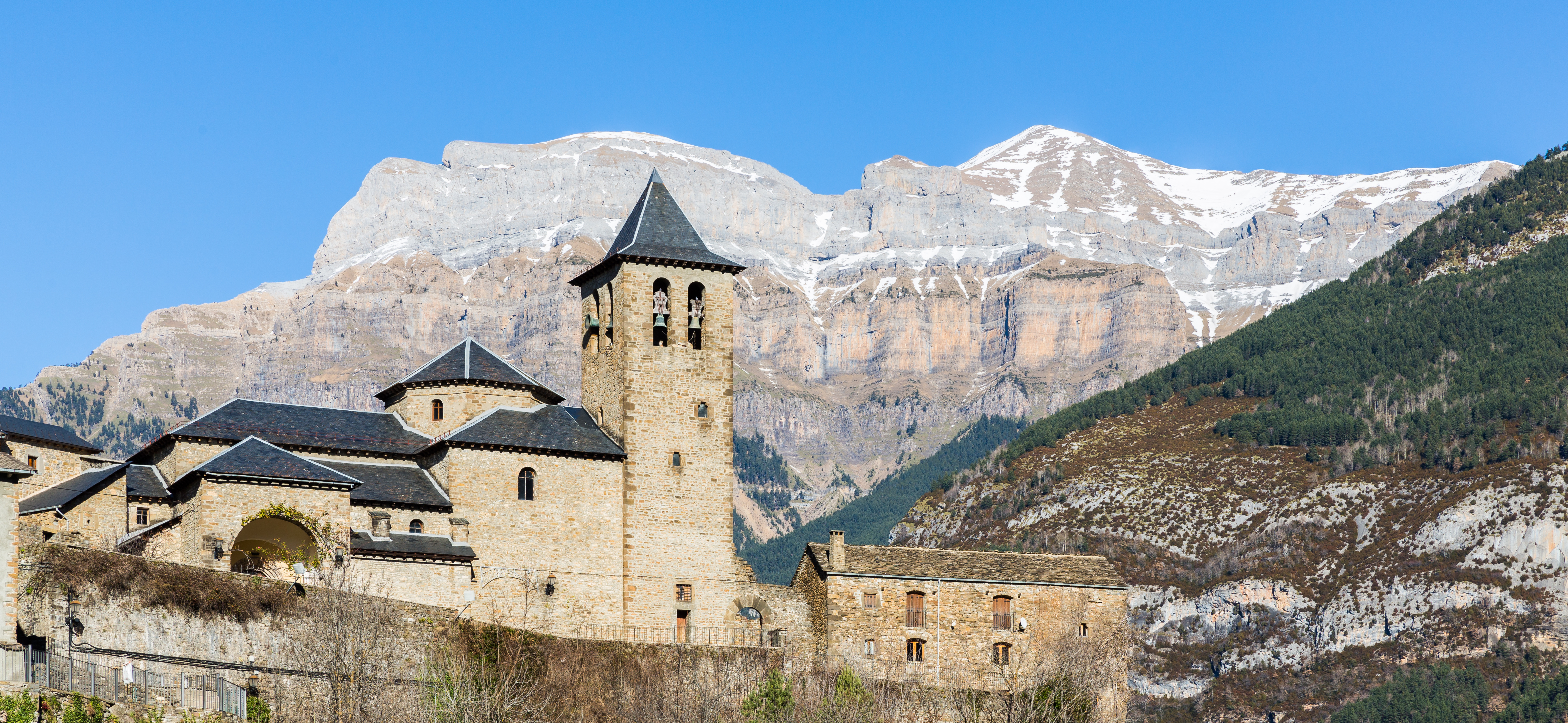 Church of San Salvador in Torla, province of Huesca, Aragón, Spain. The church, of late gothic style but with a romanesque portal, dates from the 16th century. In the background are the mountain of Ordesa y Monte Perdido National Park.